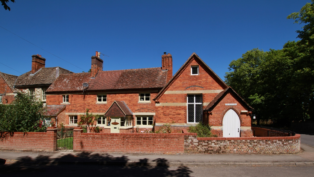 Griffin Memorial Hall (right) and adjoining cottages (centre and left), Sparsholt, Oxfordshire (formerly Berkshire), seen from south-southwest